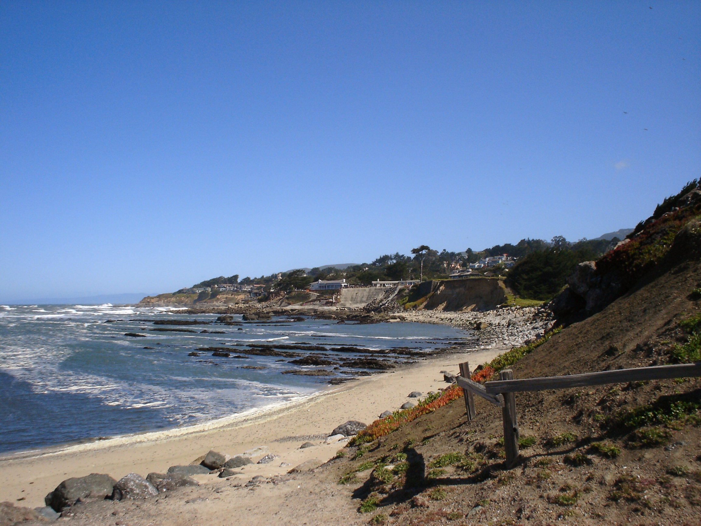 Author:Robert E. Nylund Source:Personal photos